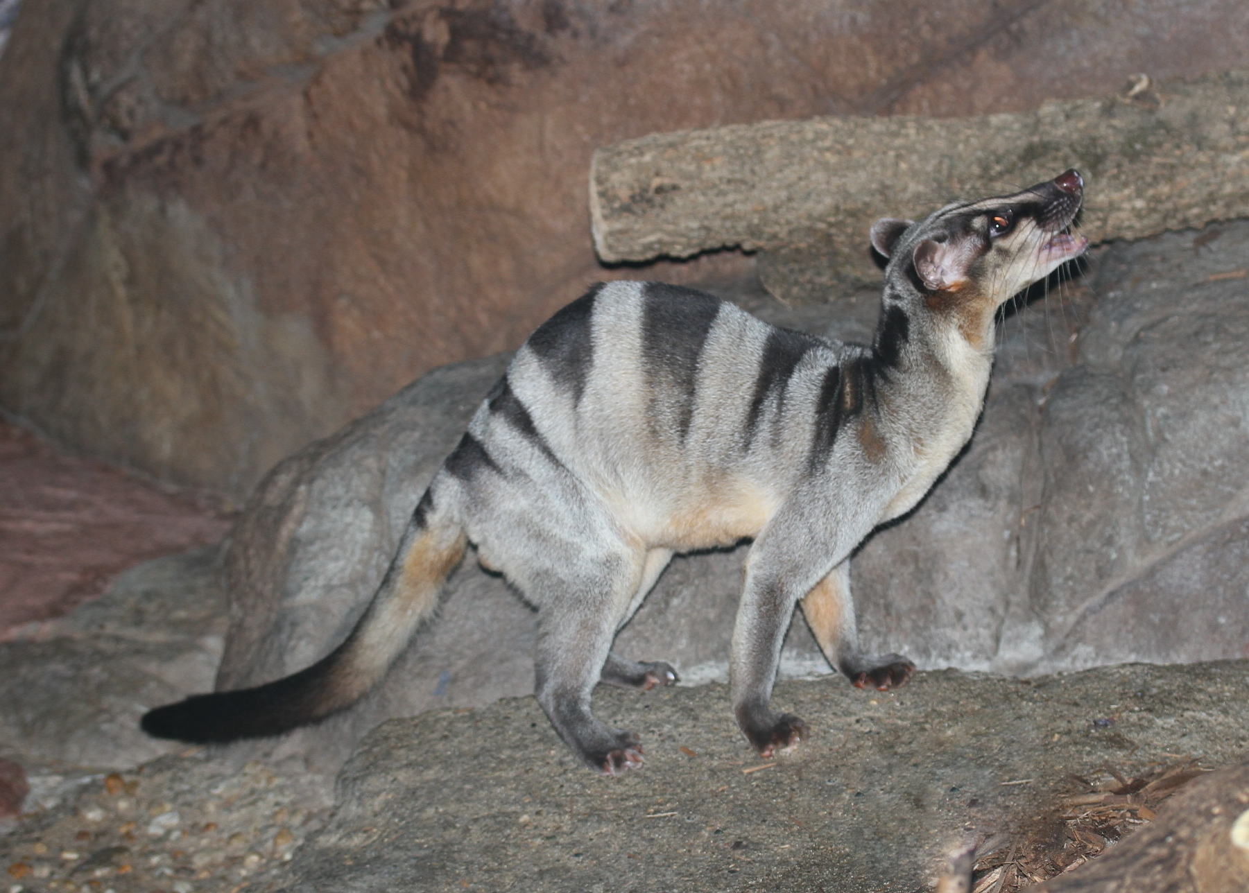 Banded Palm Civet - Hemigalus derbyanus. Captive animal - taken at the Cincinnati Zoo.